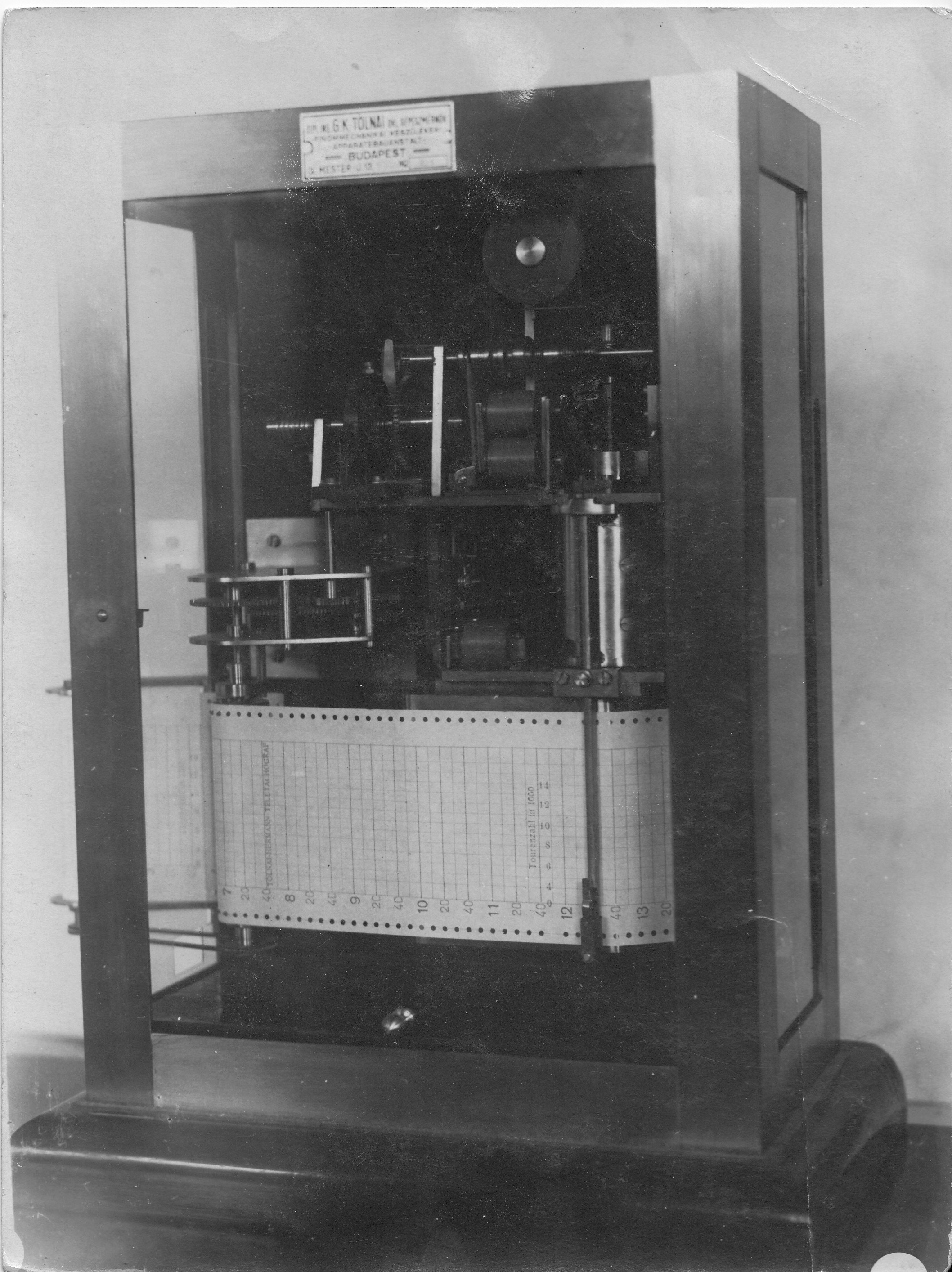 Centralograph, own invention by engineer Gábor Kornél Tolnai (1902-1982), Budapest, in 1928-1931. This picture shows Tolnai-Teletachograph with diagram paper (chart paper). At the set-up of the centralograph the machine is in connection with a wiring test terminal box. The teletachograph has a pencil, which draws the diagram, with the holder for the pink. On the chart of the teletachograph one can read the downtime of the machine for the shift (the shift of the spool), how slow and how quickly the machine restarts and how long the first, lower speed lasted at startup. Even spindle speed can be read, the white part represents the actual work chart. Unevenness in velocity should not be considered. The machine's spindle speed can be 7,000 turns, but sometimes it is reduced to 6,000 turns, apart from the starting torques.